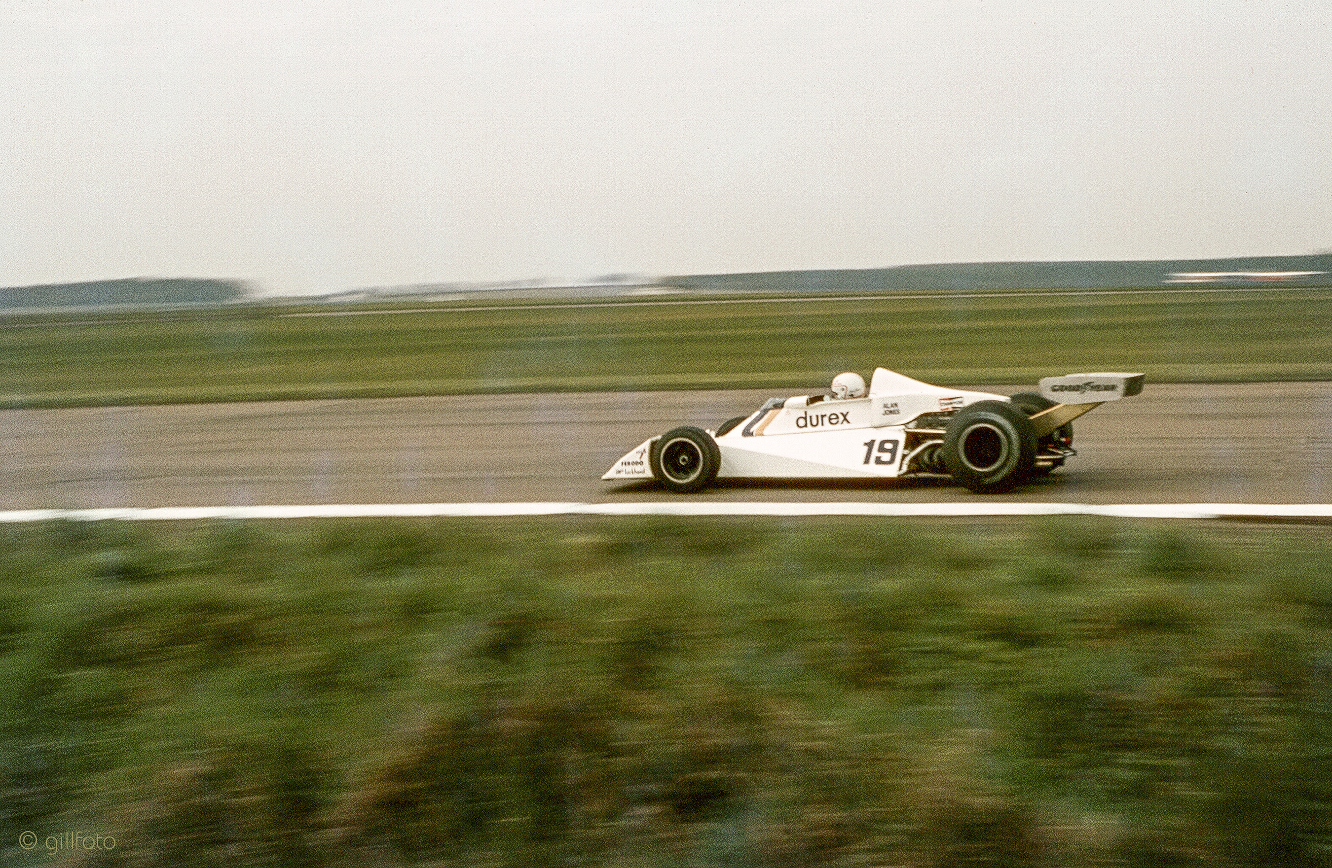 Alan Jones (Australia) driving Surtess (GB) TS19 at the 1976 Graham Hill International Trophy, Silverstone, England.